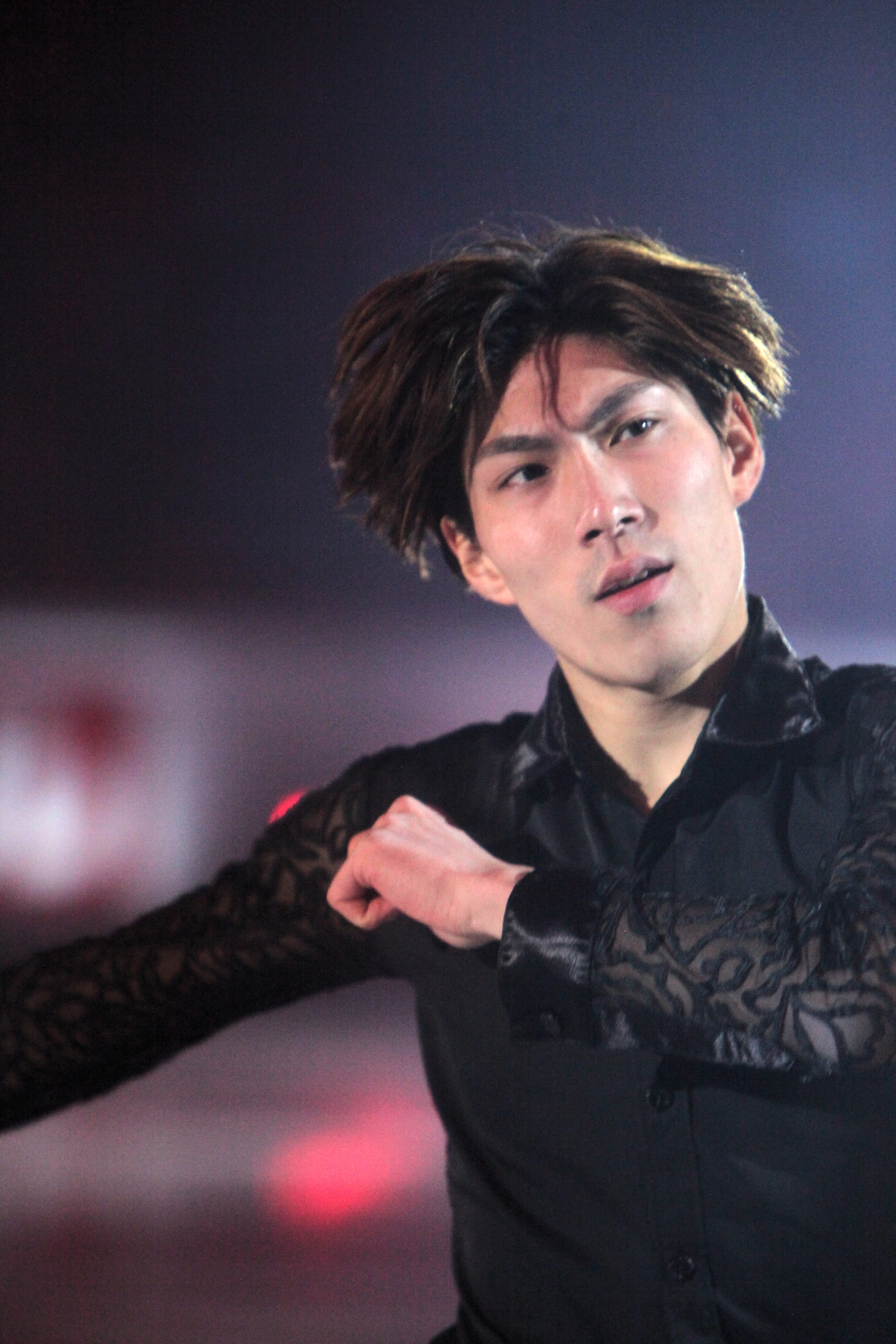 Keiji Tanaka during the gala at the Internationaux de France de Patinage 2018.